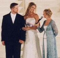 Mrs Iowa America 2004, with Tim Patterson, and Florence Henderson.